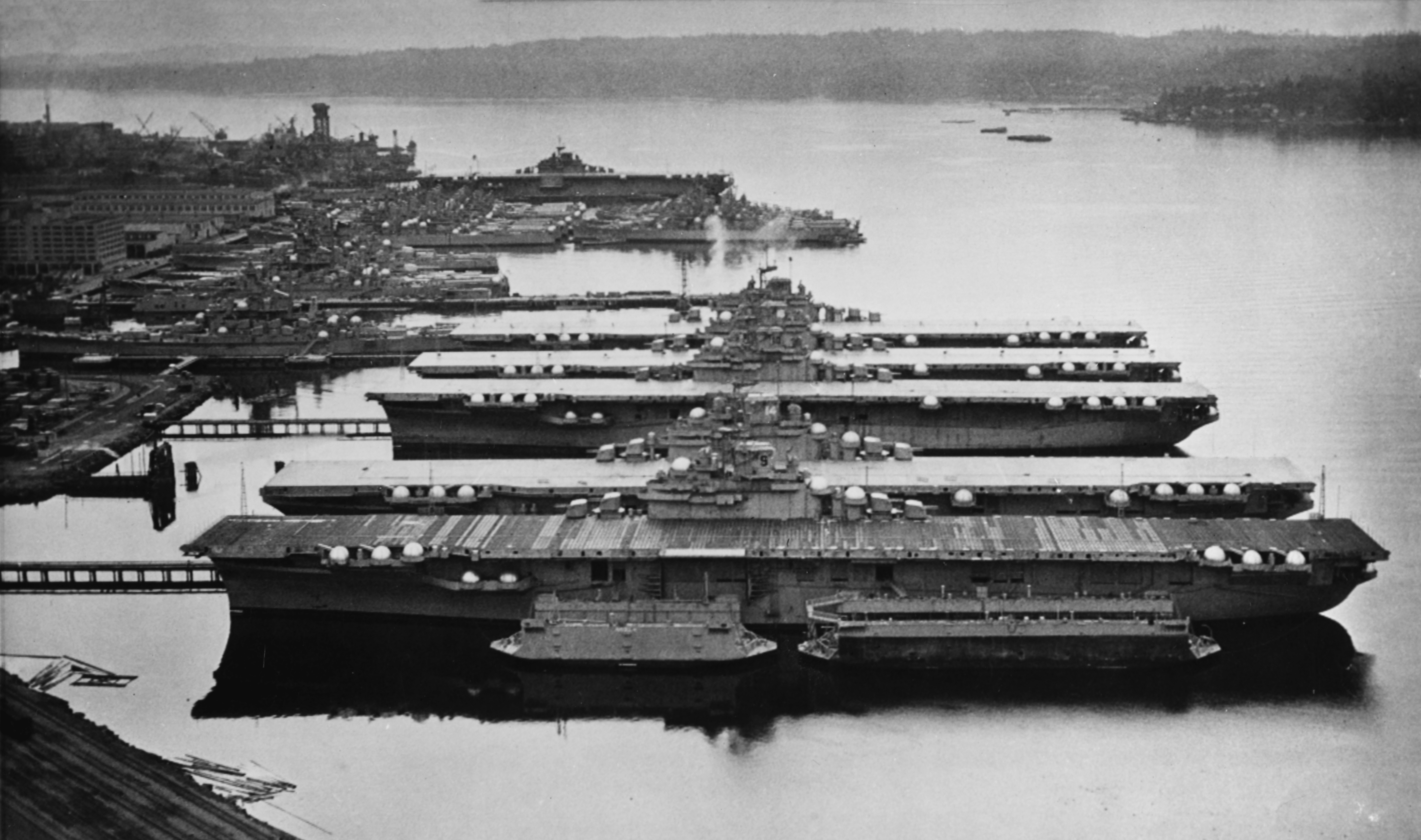 Ships of the Bremerton Group, U.S. Pacific Reserve Fleet, at Puget Sound Naval Shipyard, Washington (USA), circa on 23 April 1948. There are six aircraft carriers visible (front to back): USS Essex (CV-9), USS Ticonderoga (CV-14), USS Yorktown (CV-10), USS Lexington (CV-16), USS Bunker Hill (CV-17), and USS Bon Homme Richard (CV-31) (in the background). Three battleships and various cruisers are also visible.